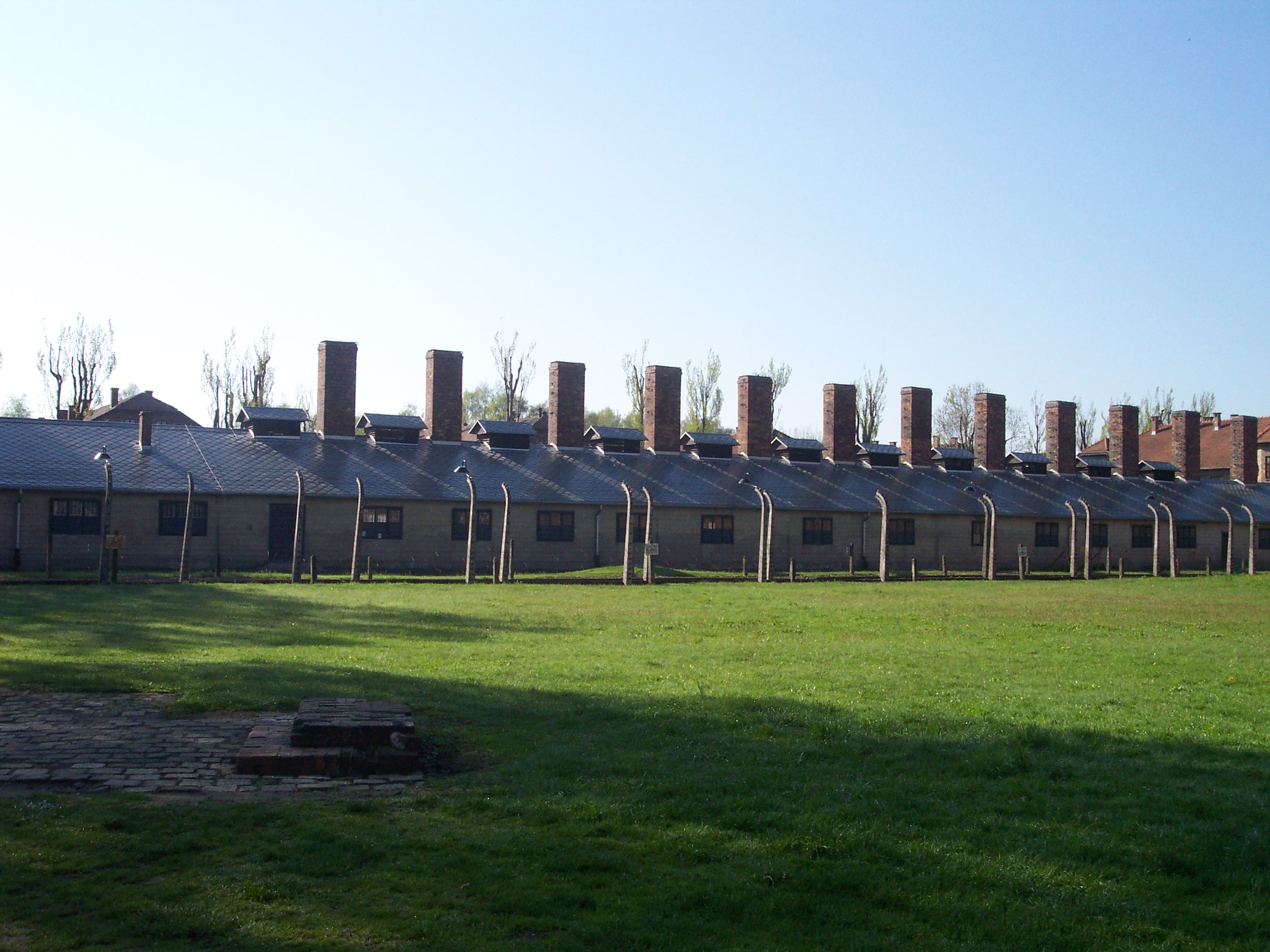 In the nearby of the entrance to concentration camp Auschwitz I